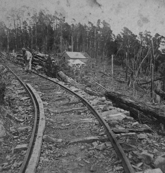 Dun Mountain Railway, Copy Collection, The Nelson Provincial Museum, C2634